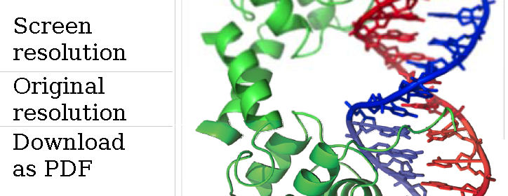 Comparison of how the File:Lambda repressor 1LMB.png picture in the Helix-turn-helix article is rendered using different source files for printing. Based on the original source file which is GFDL licensed. This image was generated by: 1) Clicking "Printable version" in the left-hand menu for Helix-turn-helix (Firefox 3.5.7 on XP SP3). 2) Saving a local copy of the article page and files. 3) Loading the local copy into Firefox and printing to Adobe PDF converter (9.2.0) standard settings. 4) Changing the image source to " 5) Re-loading the page and printing to PDF again using the same settings. 6) Displaying the PDFs in Acrobat (200% view) and capturing the detail with SnagIt. 7) Pasting the captured detail into a PNG file with label text. The upper part of the file shows the result of printing the unmodified source article. The middle part shows the result of printing the article modified to use the original image. The bottom part shows the article as generated by the "Download as PDF" function.